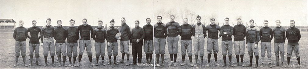 An earlier Massillon Tigers football team. The tean was folded in 1923.